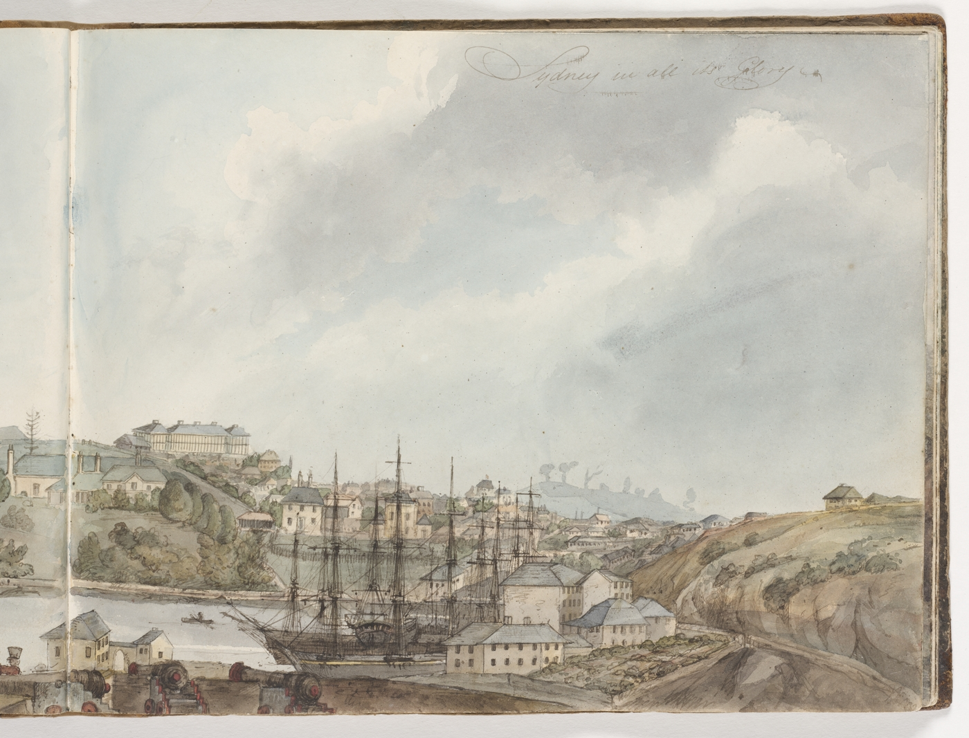 Painting of Sydney Harbour by Edward Charles Close (1790-1866)